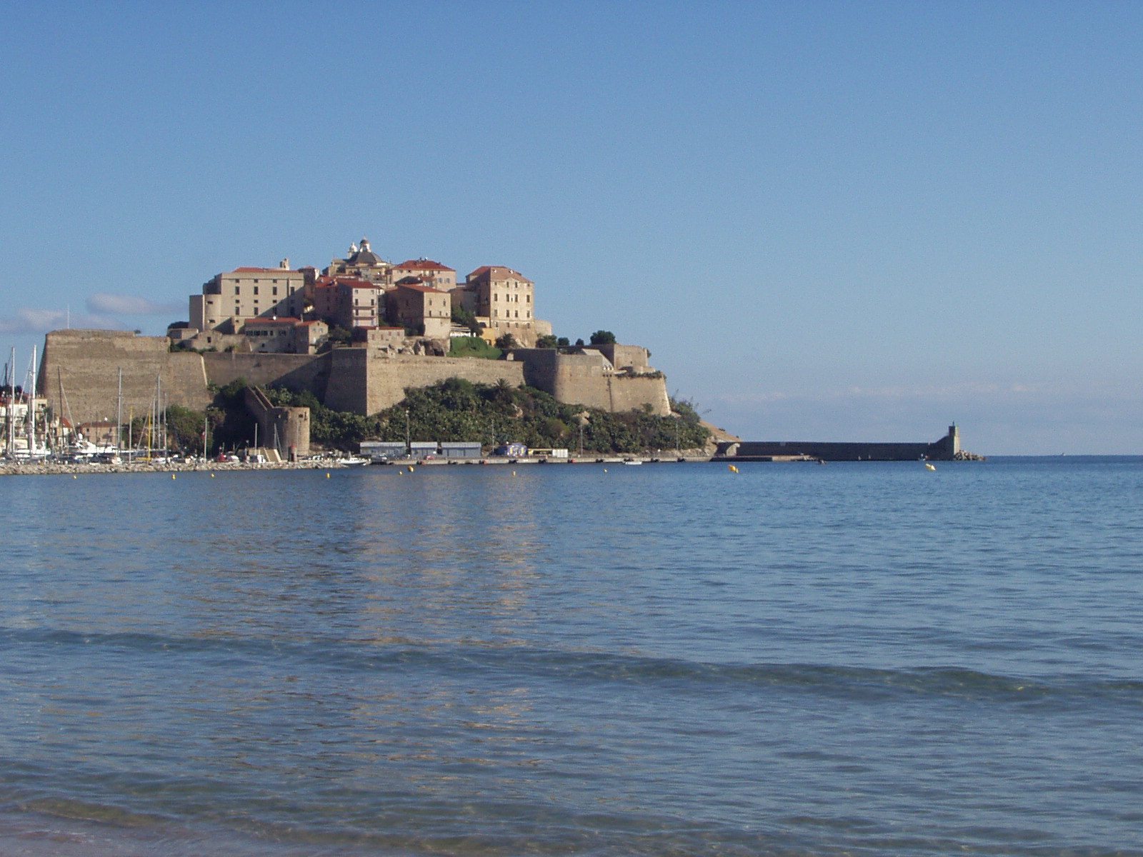 Citadel of Calvi, Corsica, France, seen from the beach.